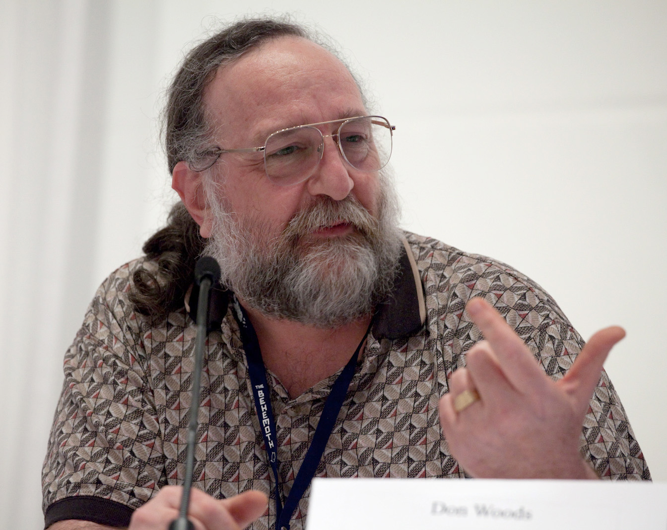 American software developer Don Woods, co-creator of Adventure, the first ever text-adventure, and programming language Intercal, about which the less said the better, at PAX East, 2010, in Boston.